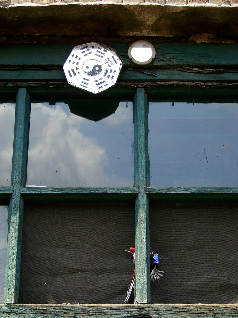 Taijitu within a frame of trigrams and a demon warding mirror, these charms photographed above a window in in a residential area of Harbin Road, are believed to frighten away evil spirits and to protect the dwelling from bad luck.